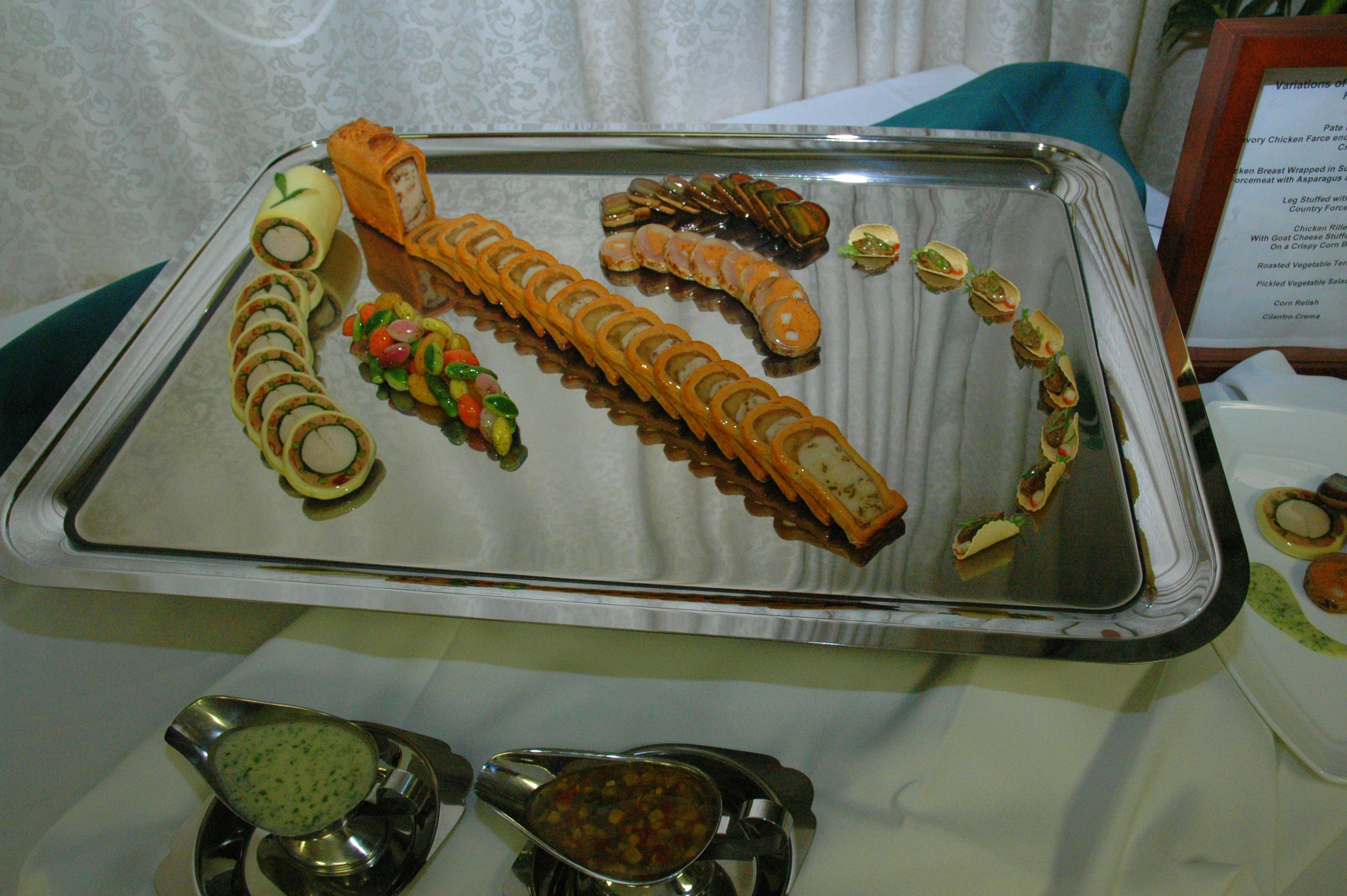 Modern Charcuterie display